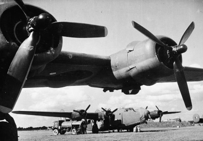 Air Ministry Second World War Official Collection